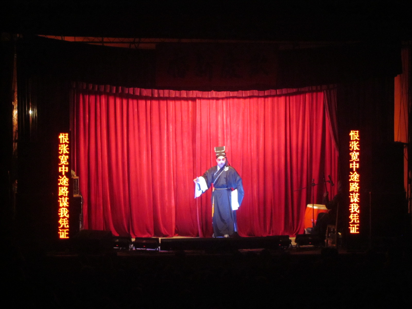 Changsha Flower Drum Opera, Changsha mandarin dialect is used on stage, giving a greater impact to Hunan style of Flower Drum play